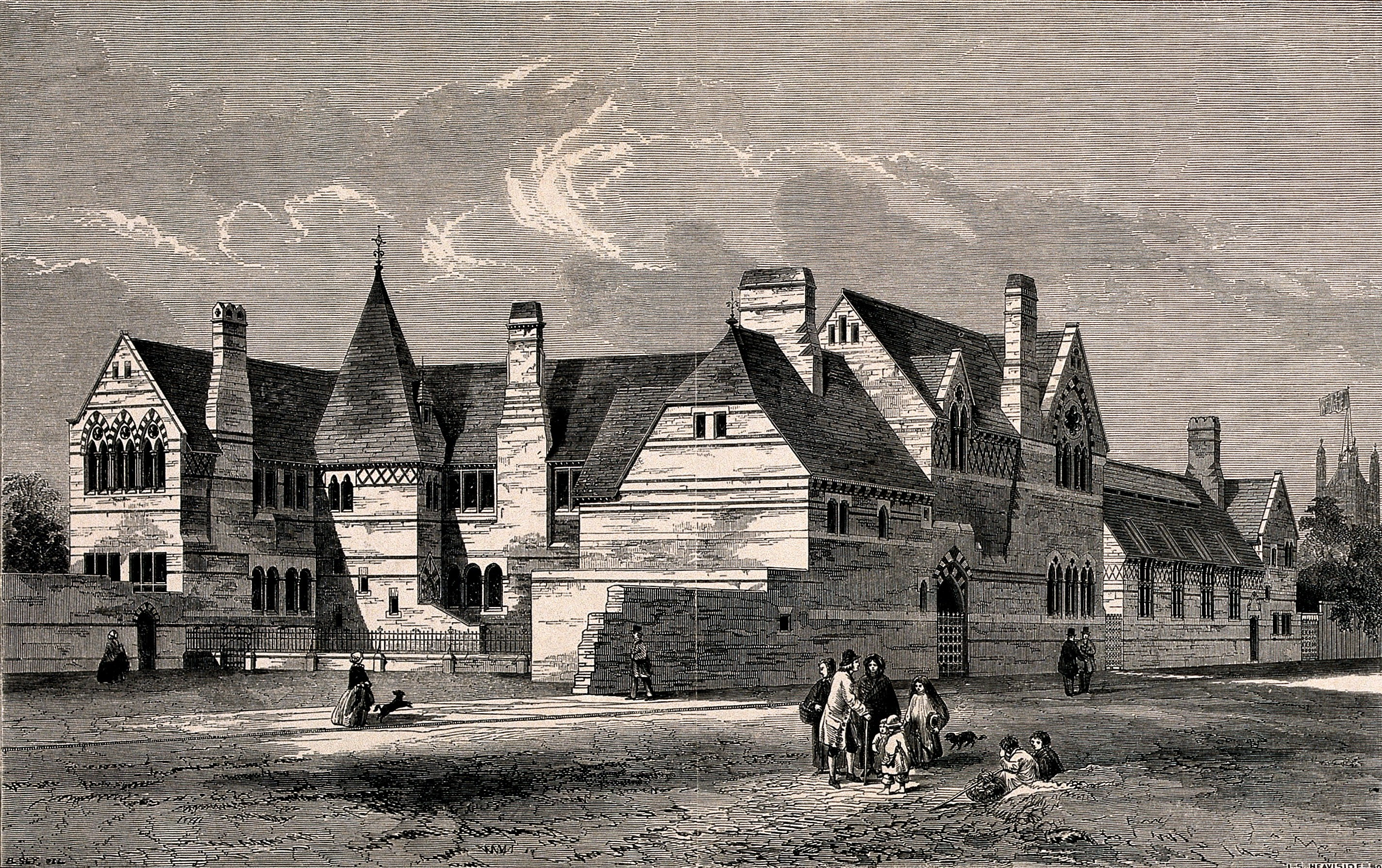 Schools of St. Mary-the-less, Lambeth. Wood engraving by J. S. Heaviside after B. Sly, 1860. Iconographic Collections Keywords: Benjamin Sly; John Smith Heaviside; John Loughborough Pearson